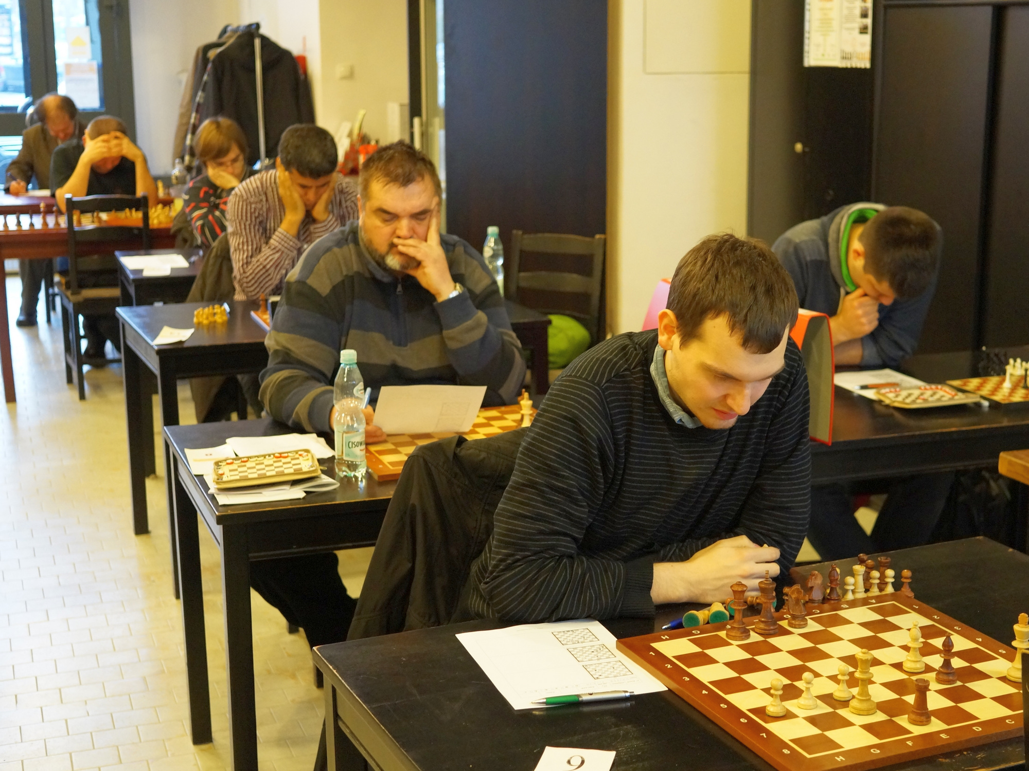 XIII Warsaw Chess Solving Grand Prix.